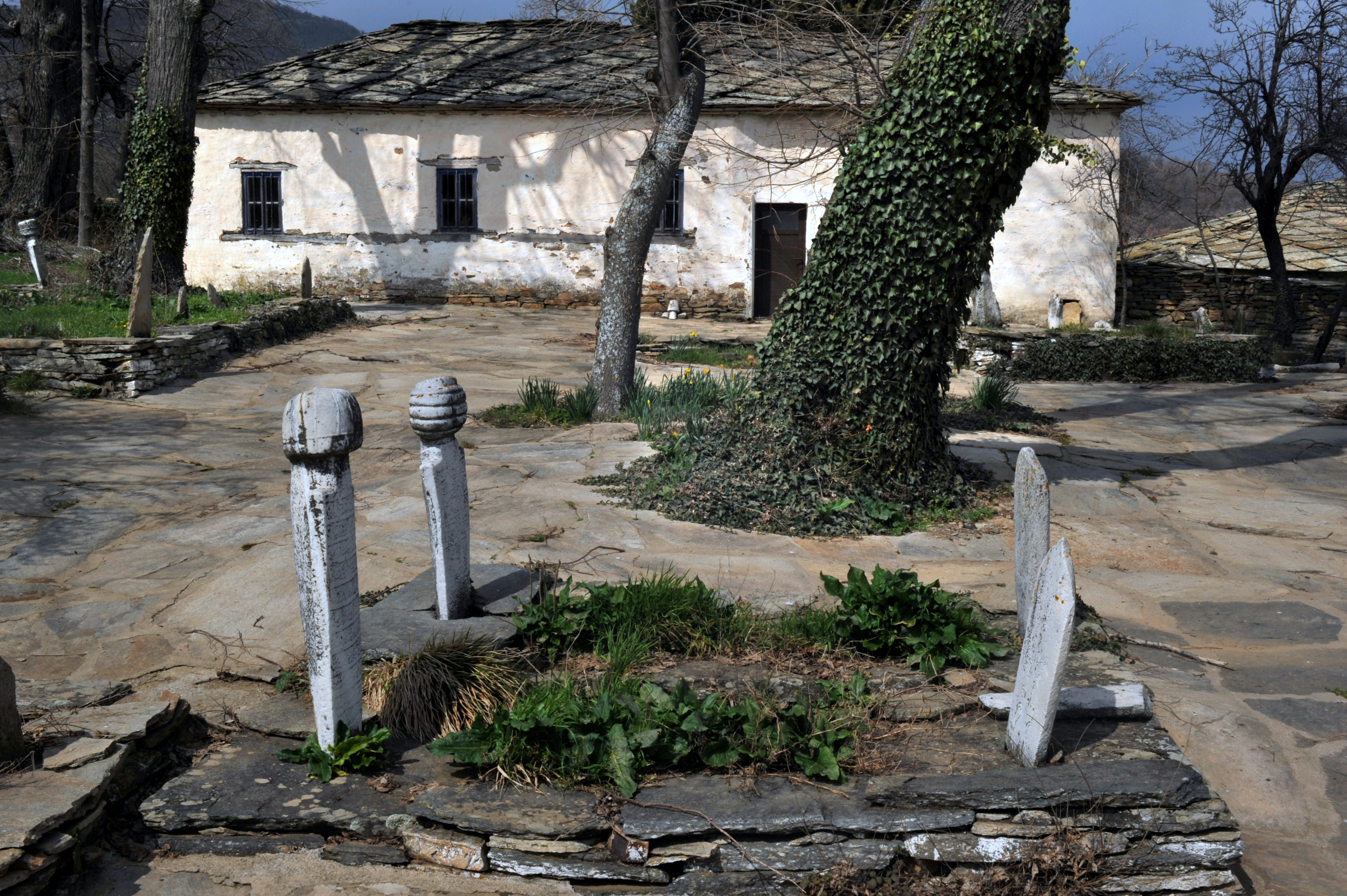 Seyyid Ali Sultan Tekke - Dervish Lodge - Evros, Greece.